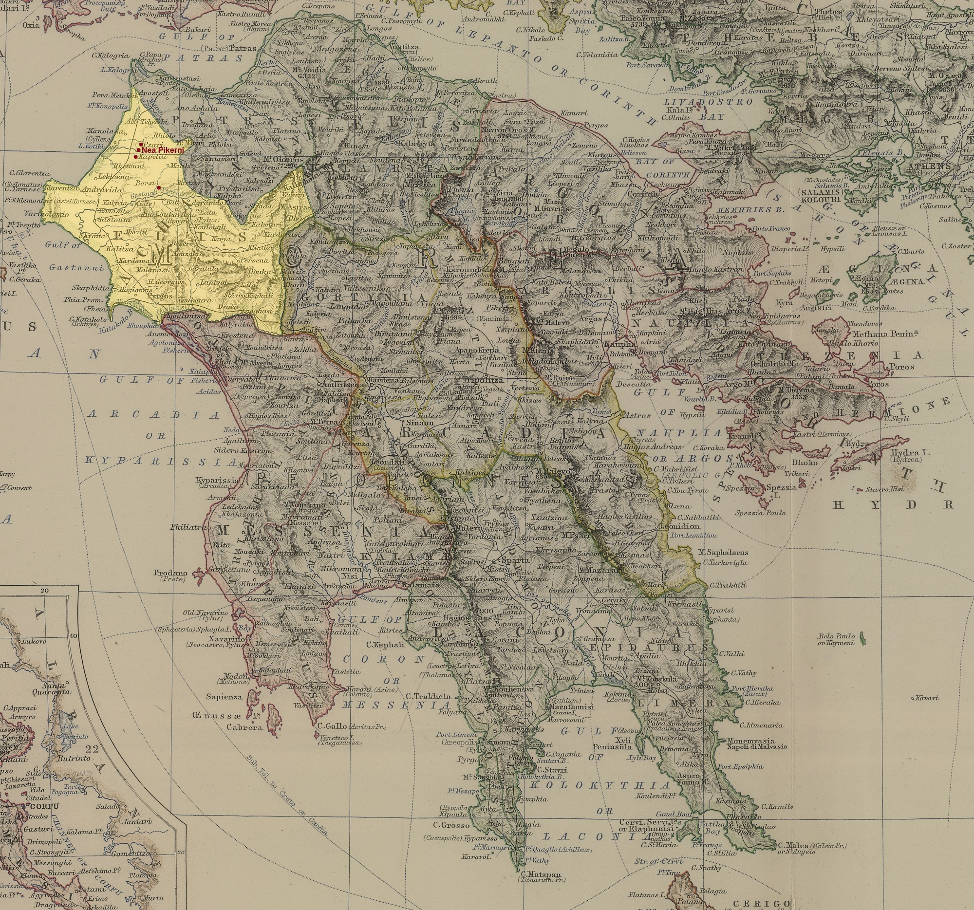 Approximate position of Nea Pikerni